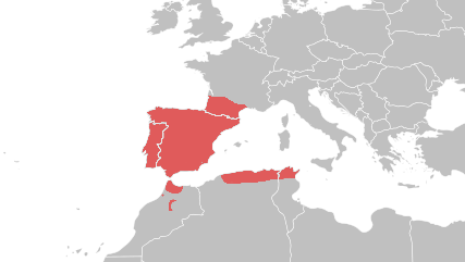 Natrix astreptophora distribution map